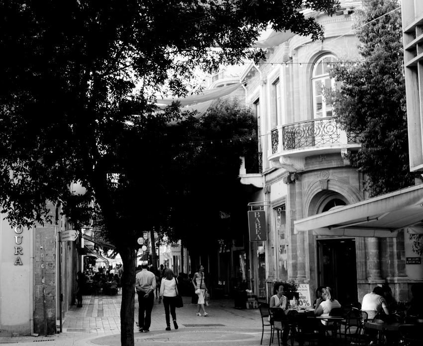 Ledra Street Afternoon cafeterias Black and white Nicosia Republic of Cyprus